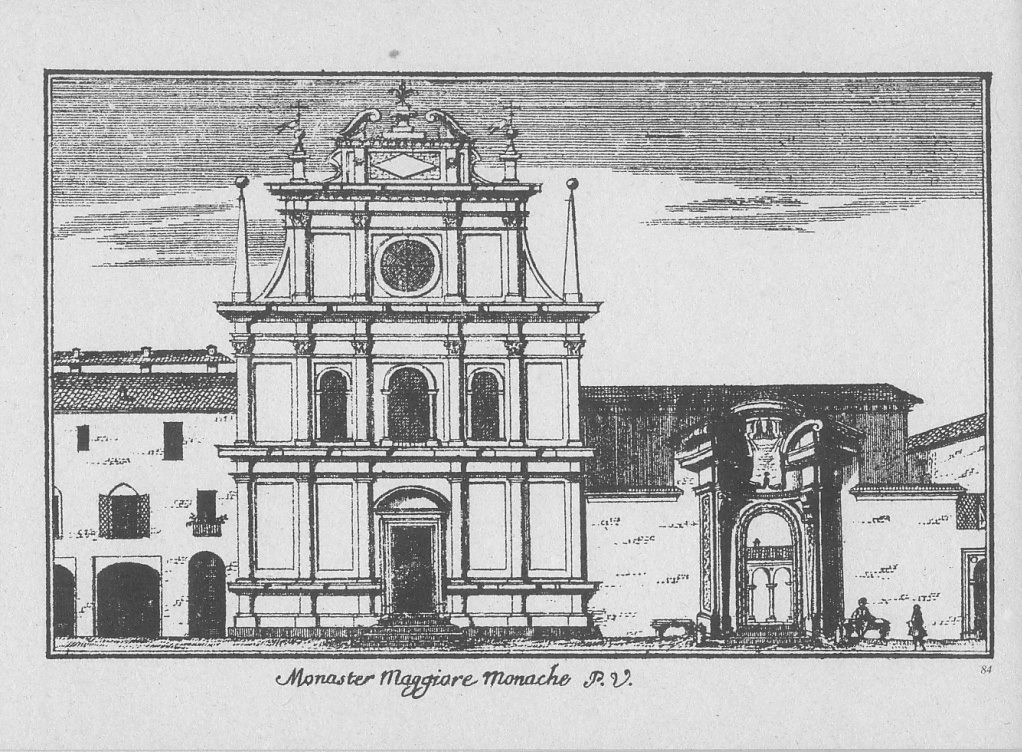 Marc'Antonio Dal Re (1697-1766), "The Main Nunnery" in Milan. This engraving is # 84 from a set of 88 Vedute di Milano ("Views of Milan") published by Del Re around 1745.